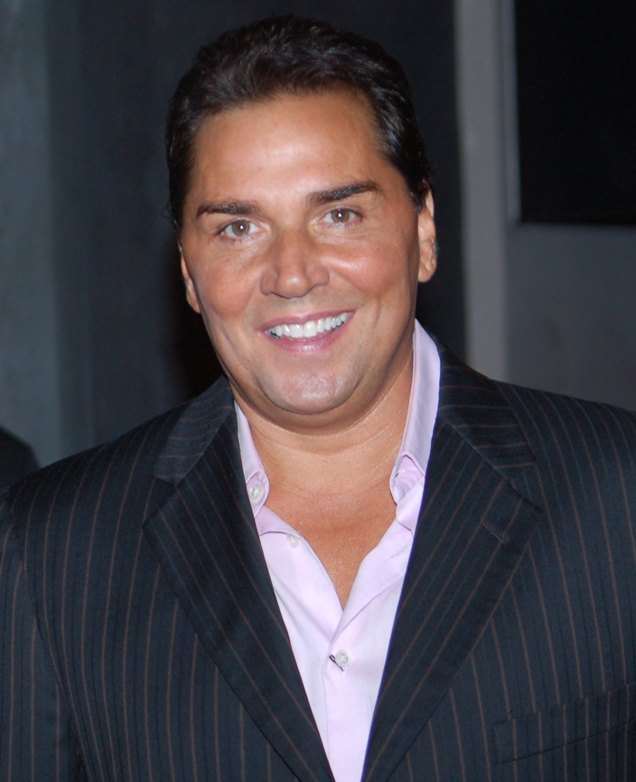 Billy Hufsey at a fundraiser for Drop in the Bucket.